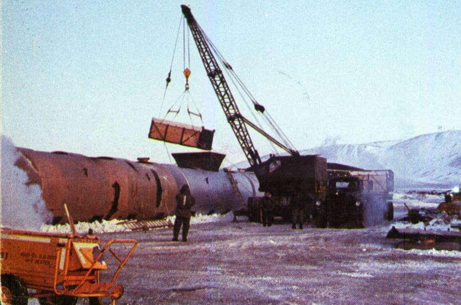 Contaminated ice being loaded into steel tanks for shipping to the United States for processing during Project Crested Ice.